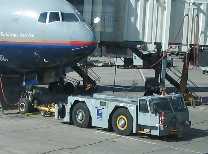 A pushback tractor attached to the front wheel of a Boeing 777. The vehicle is used to push the airplane out from the gate, before it starts taxiing on its own power. See Image:Denver International Airport, United Airlines Boeing 777 being serviced.jpg for a wider-view photo taken at the same time, from nearly the same angle.